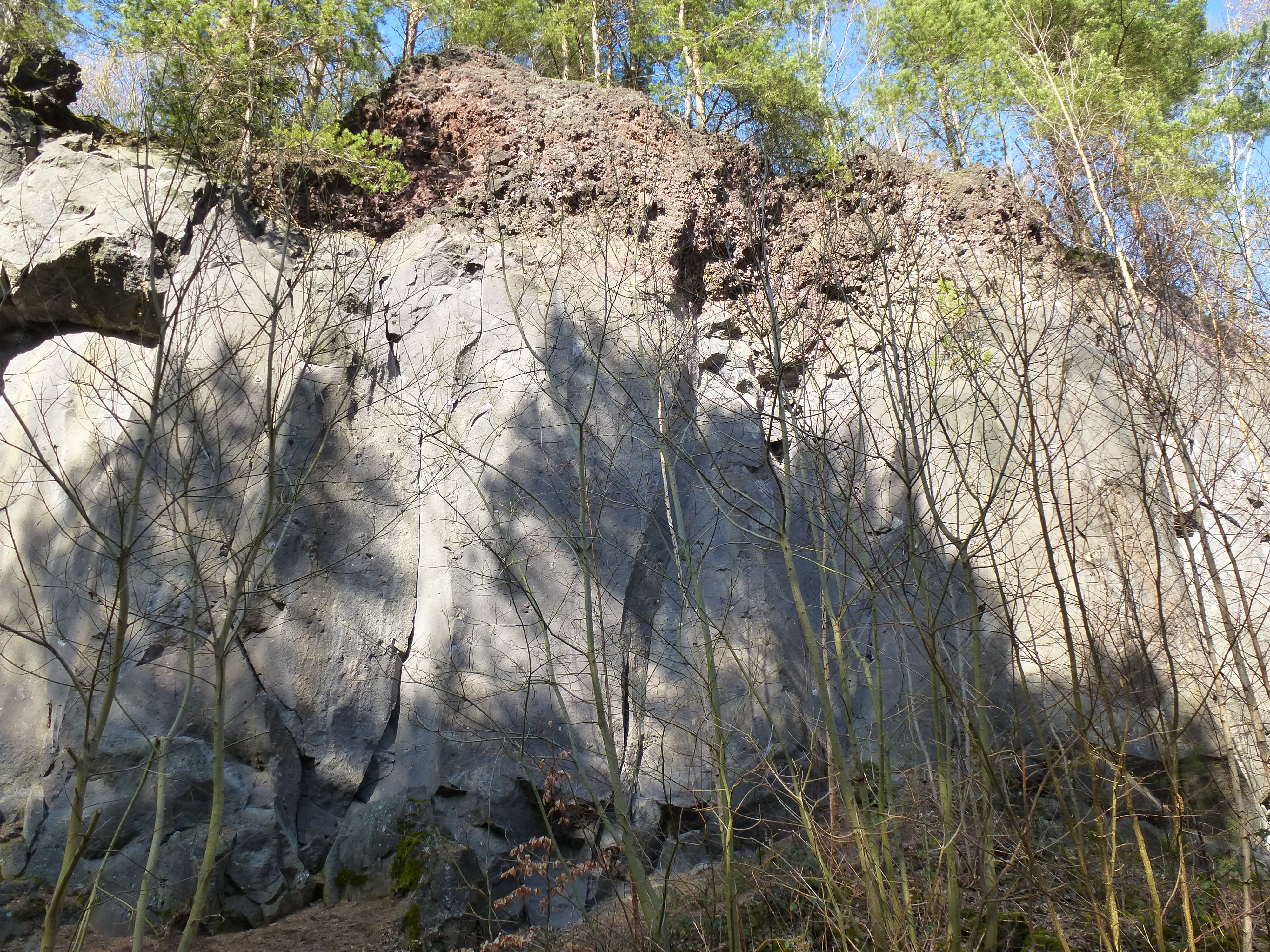 Basalt rocks at the former basalt mining area Kottenheimer Winfeld between Ettringen and Kottenheim (district Mayen-Koblenz, Rhineland-Palatinate, Germany)